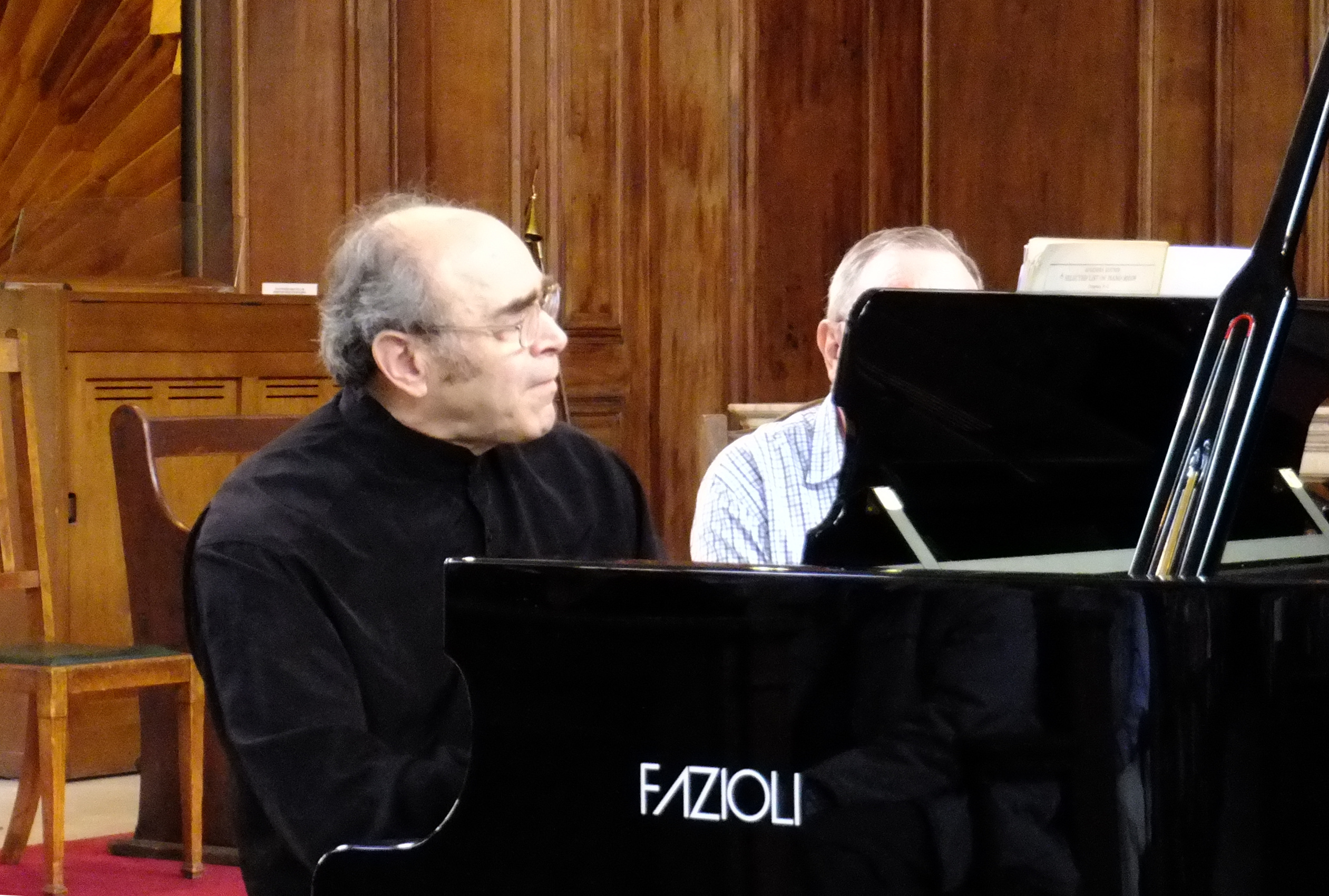 Alberto Portugheis 70th birthday concert, at St James, Picadilly, London